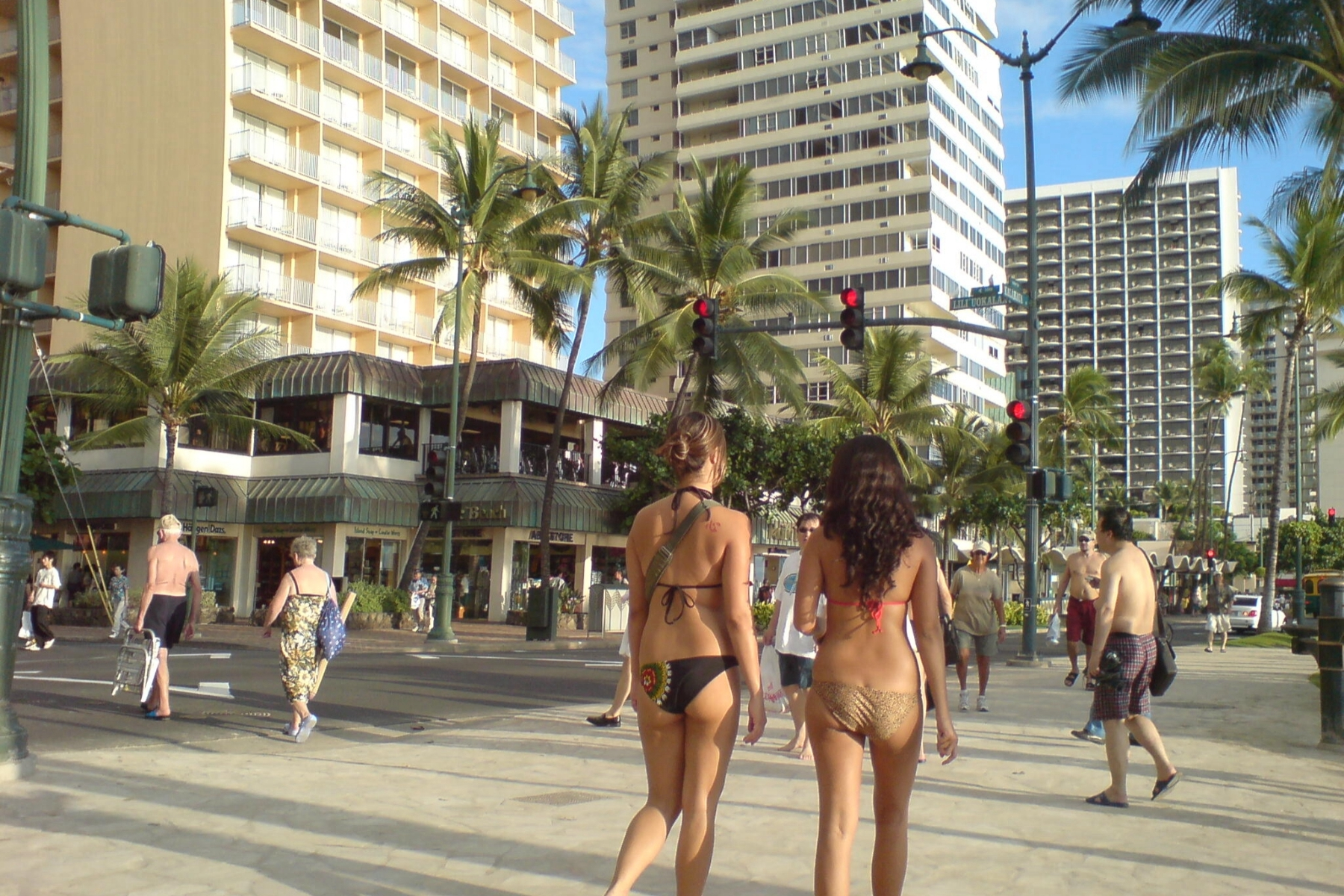 Tourists strolling down along Kalakaua Avenue in Waikiki, Honolulu, HI.